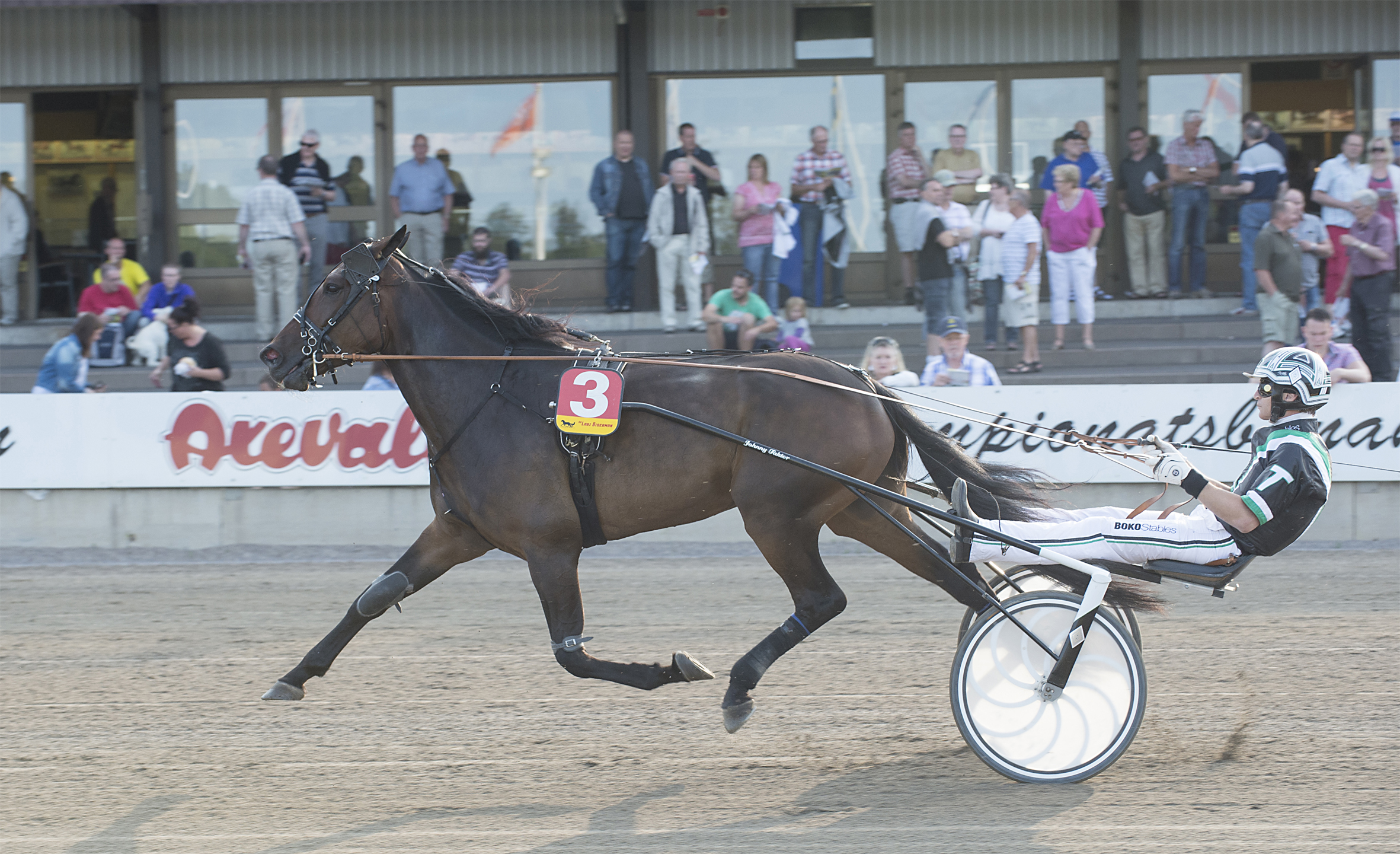 Trotting horse Fascination and driver Johnny Takter.